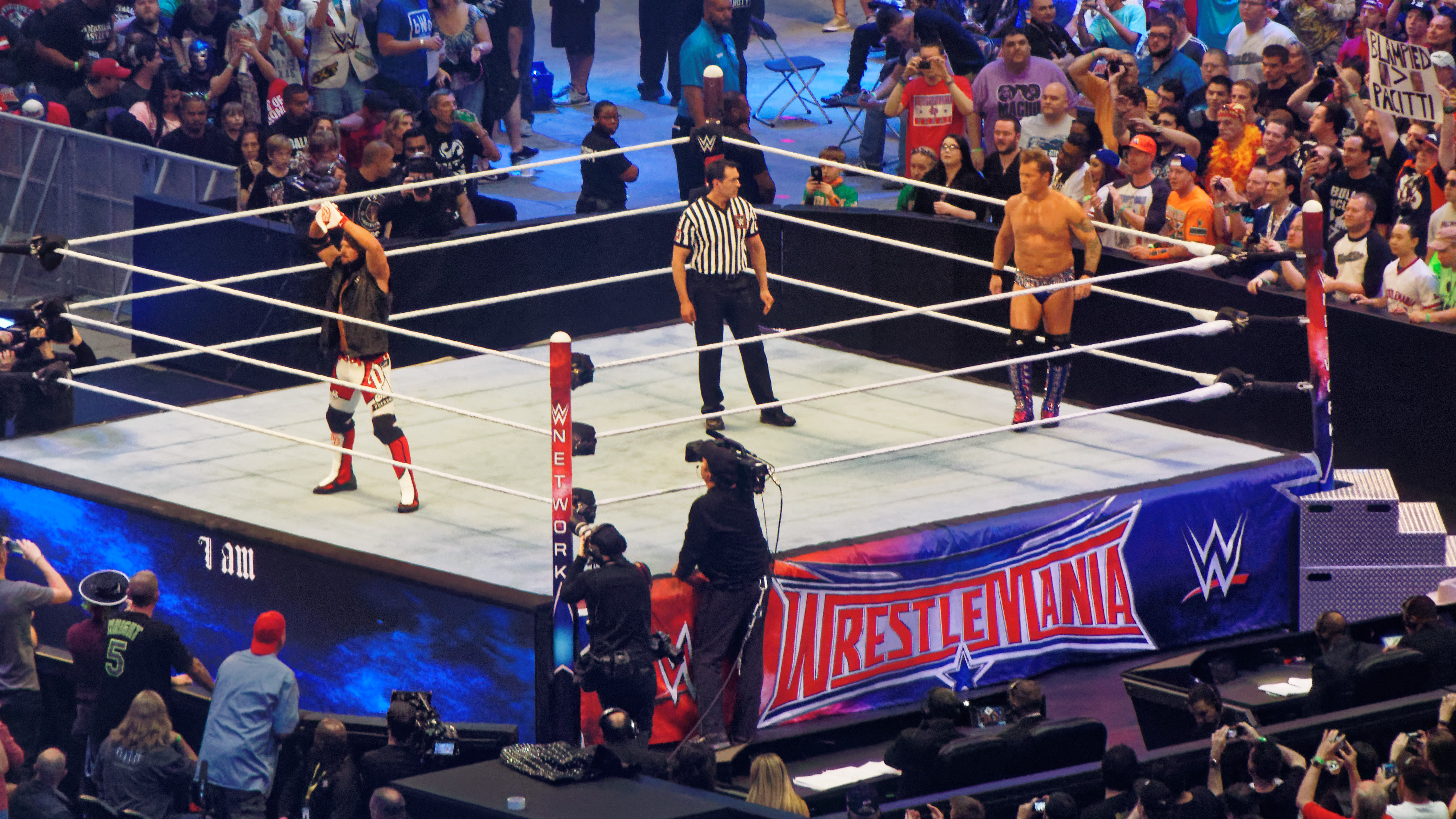 WrestleMania 32 was the thirty-second annual WrestleMania professional wrestling pay-per-view (PPV) event produced by WWE. It took place on April 3, 2016, at AT&T Stadium in Arlington, Texas. Twelve matches were contested on the card (with three matches occurring on the WrestleMania Kickoff pre-show - two airing live on the USA Network, which televised the second hour of the pre-show). Chris Jericho def. (pin) A.J. Styles (in 17:09) Rating : ***3/4